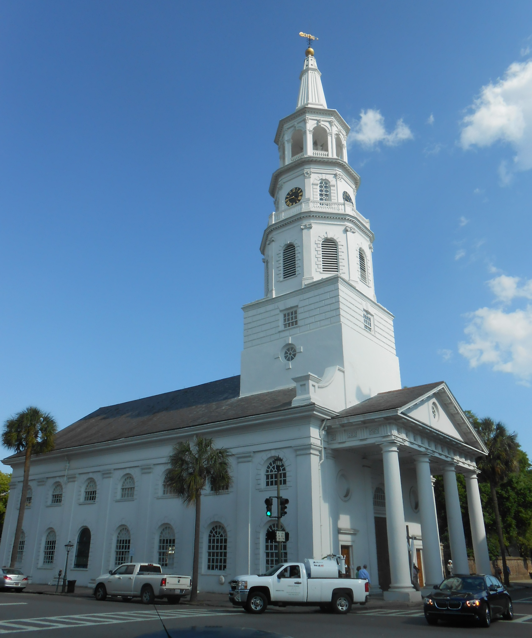 St. Michael's Episcopal Church is located at 80 Meeting St., Charleston, South Carolina.